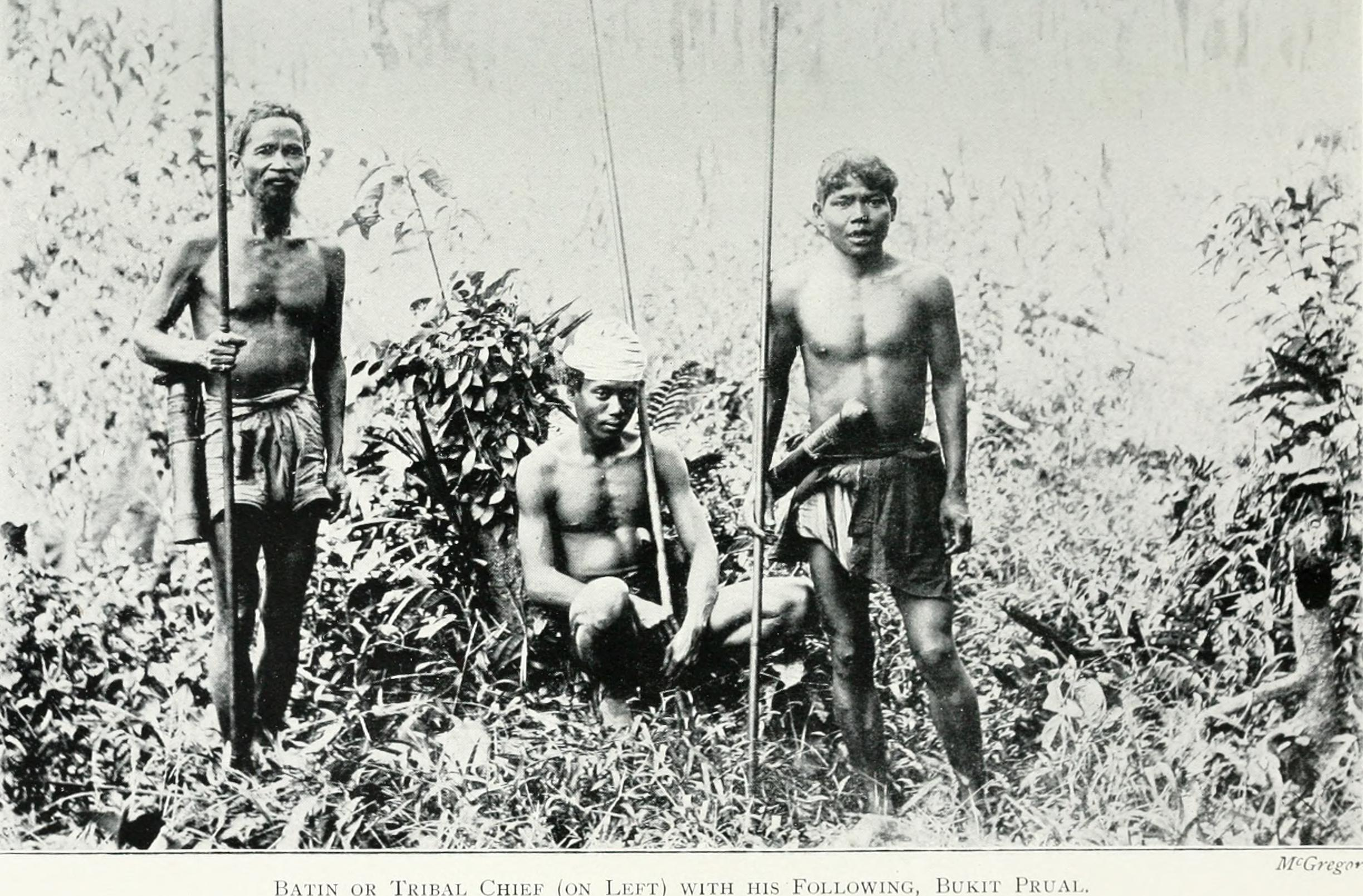 Title: Pagan races of the Malay Peninsula Year: 1906 (1900s) Authors: Skeat, Walter William, 1866- Blagden, Charles Otto, 1864-1949 Subjects: Ethnology -- Malay Peninsula Malays (Asian people) Malay Peninsula -- Social life and customs Malay Peninsula -- Religion Malay Peninsula -- Aboriginal dialects Publisher: London : Macmillan and Co., limited (etc., etc.) Text Appearing Before Image: 788 ■ifi Text Appearing After Image: ^^i:^ 789